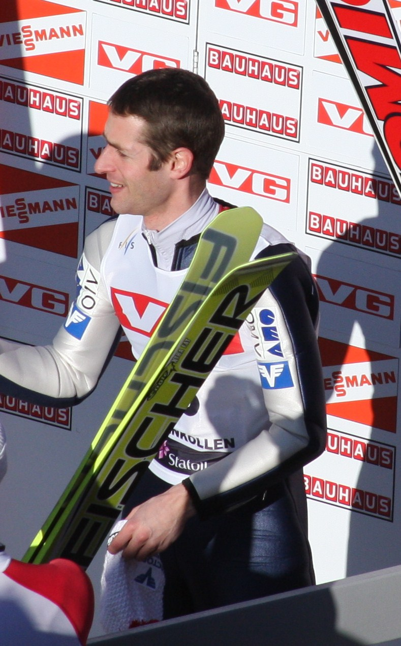 Wolfgang Loitzl after WC tournament in Holmenkollen, Oslo 2010